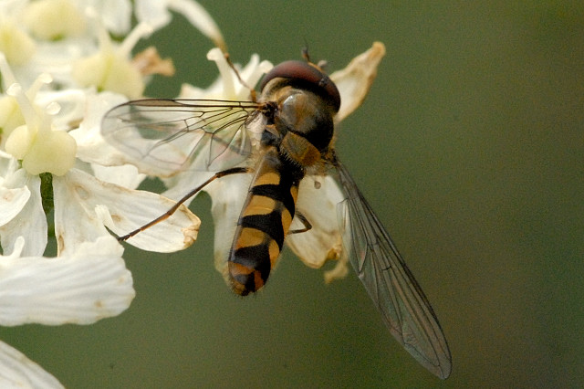 Meliscaeva auricollis from Commanster, Belgian High Ardennes .